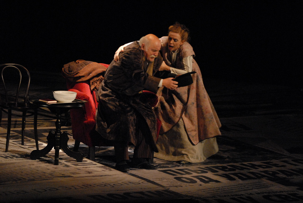 "Was There the Prince's Dinner" written and directed by Vida Ognjenović, Drama of the SNT, Novi Sad, 2008/09; Stevan Gardinovački, Draginja Voganjac Srpski (latinica): "Je li bilo kneževe večere", napisala i režirala Vida Ognjenović; Drama SNP-а, 2008/09; Stevan Gardinovački, Draginja Voganjac Српски (ћирилица): "Је ли било кнежеве вечере", написала и режирала Вида Огњеновић; Драма СНП-а, 2008/09; Стеван Гардиновачки, Драгиња Вогањац